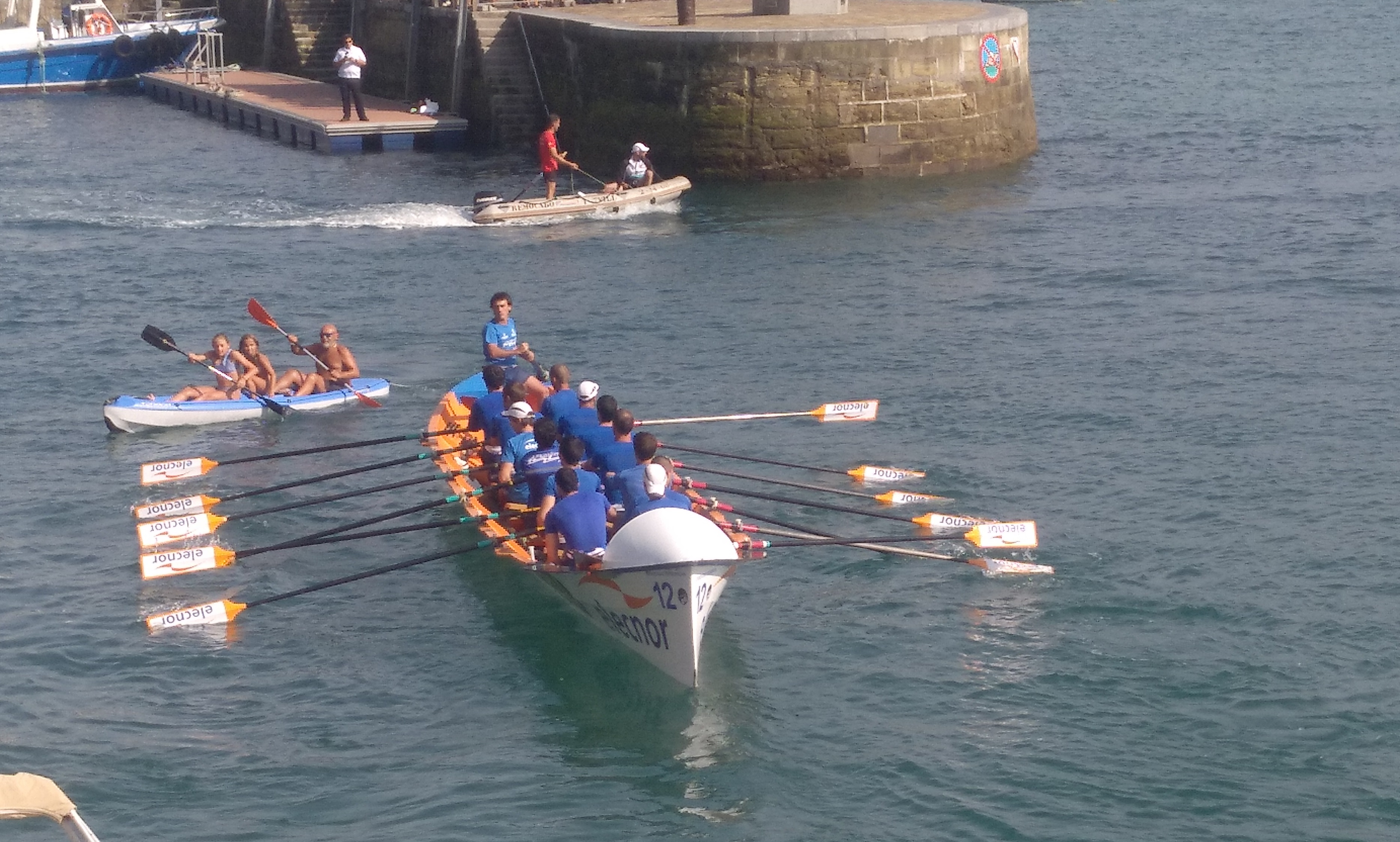 Isuntza Arraun Taldea (Lekittarra), Flag of La Concha, 2018